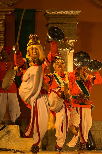 Veeragase is popular folk dance from Karnataka.Mahila Veeragaase